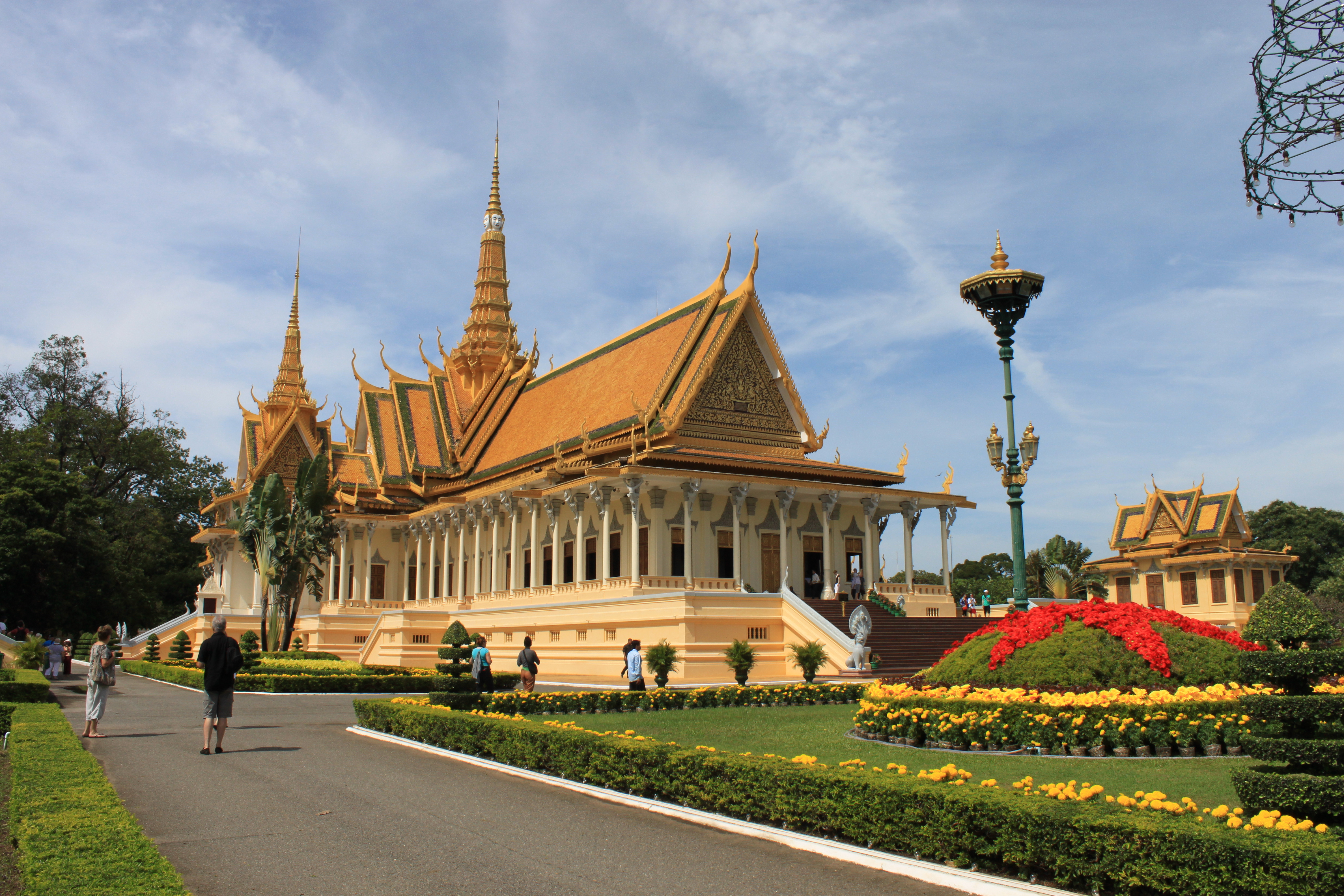 Part of the Phnom Penh Royal Palace